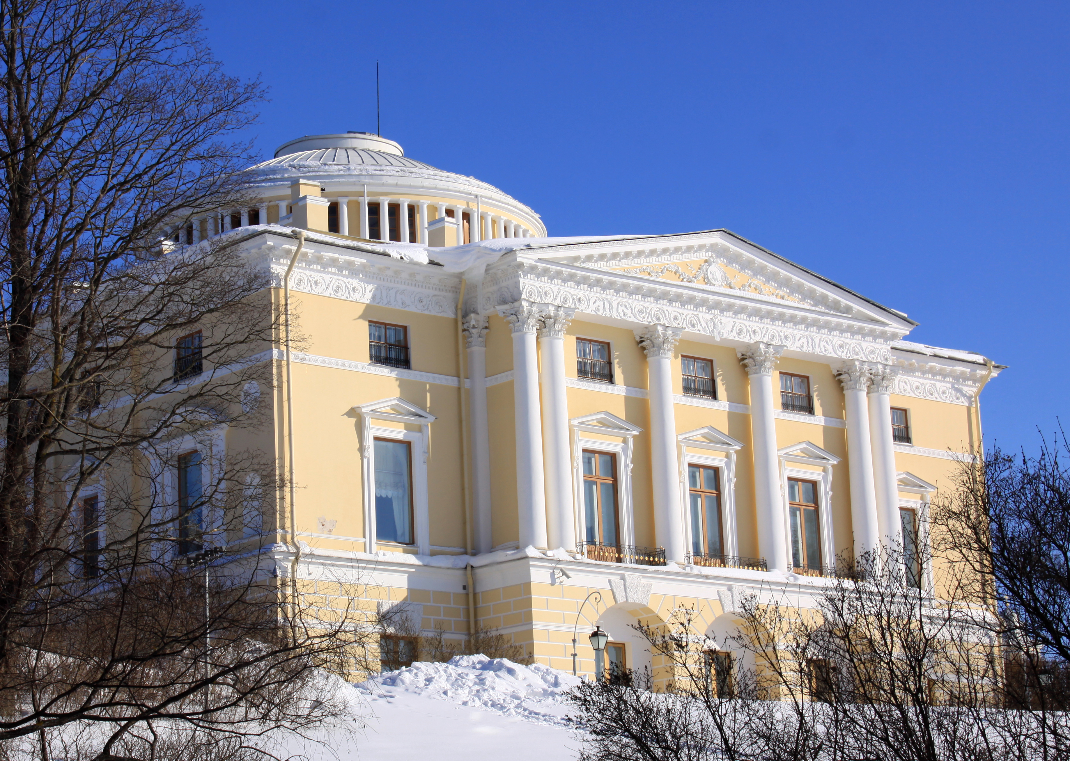 Pavlovsk Palace near Saint Petersburg